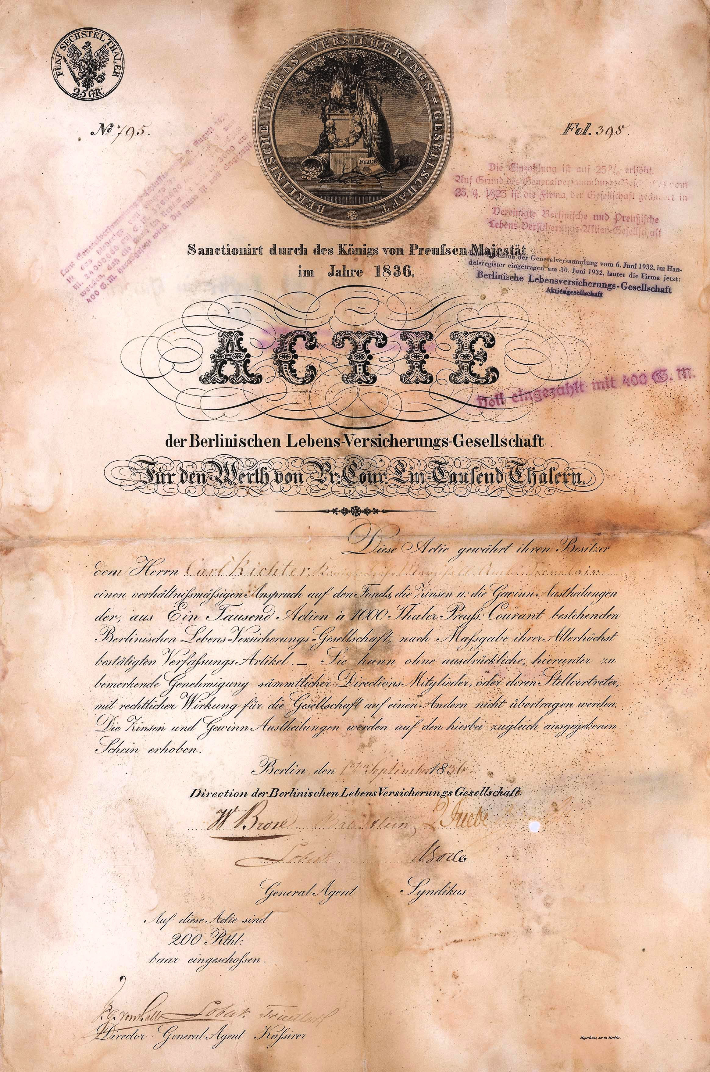 Share of the Berlinische Lebens-Versicherungs-Gesellschaft, issued 1. September 1836